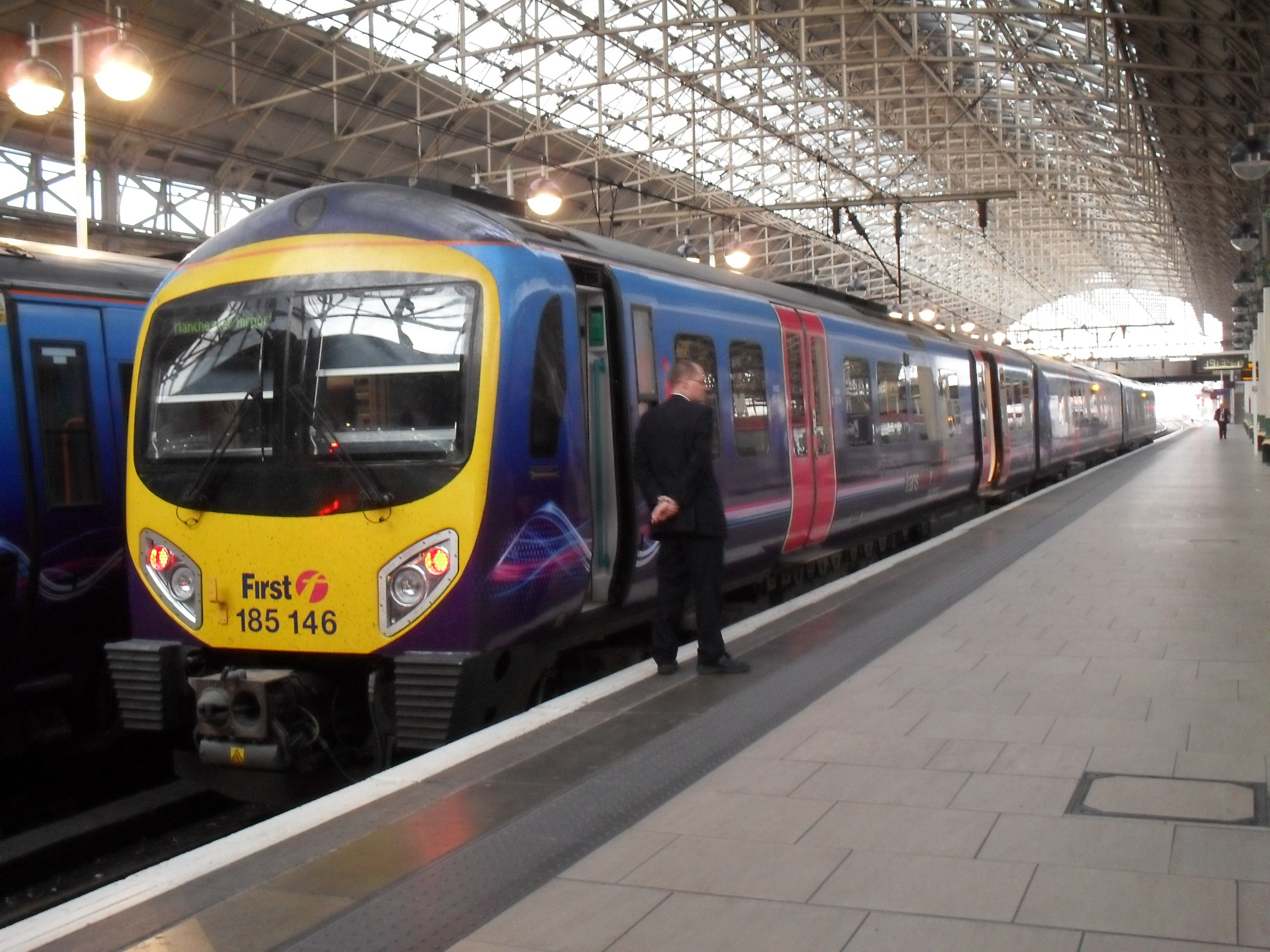 First TransPennine Express Class 185 unit 185146 is about to leave Manchester Piccadilly in this shot taken on 3 September 2010.